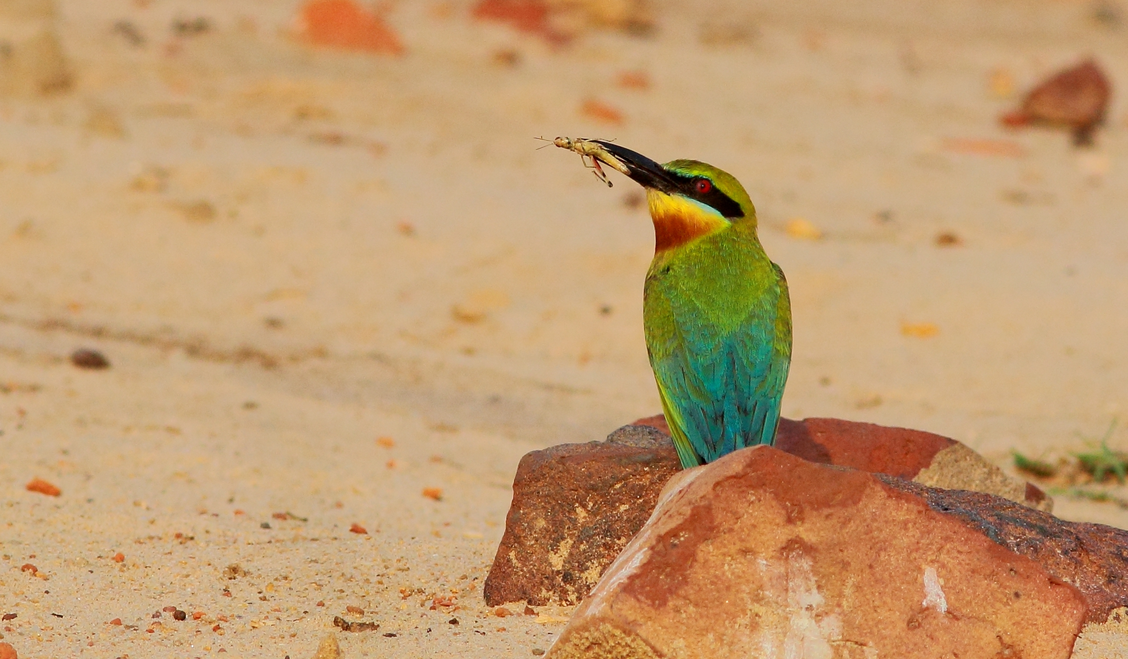 The blue-tailed bee-eater (Merops philippinus) is a near passerine bird in the bee-eater family Meropidae. It breeds in southeastern Asia. It is strongly migratory, seen seasonally in much of peninsular India. These bee-eaters are gregarious, nesting colonially in sandy banks or open flat areas.